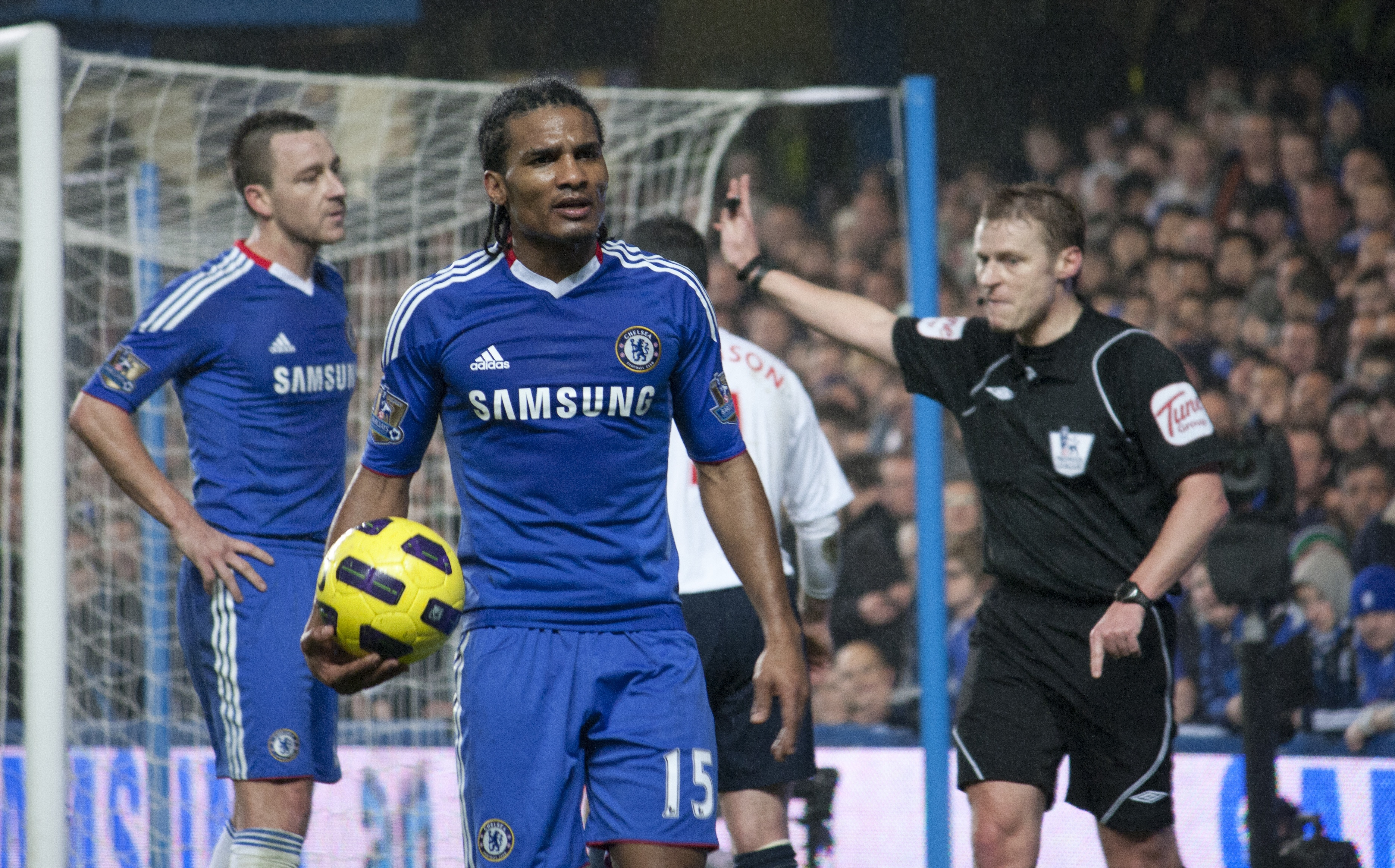 Florent Malouda of Chelsea. John Terry and referee Mike Jones in the background.